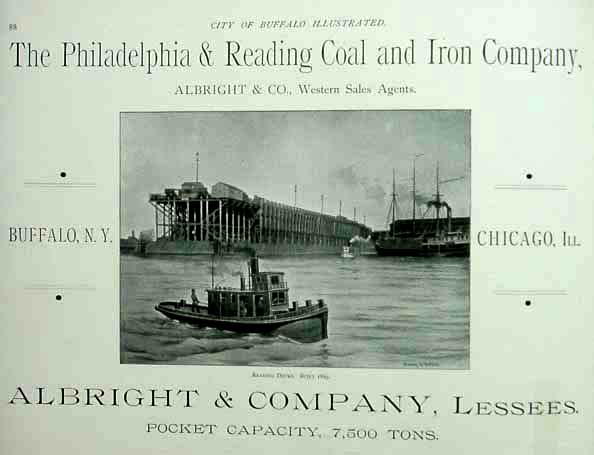 "Buffalo Illustrated: Commerce, Trade and Industries of Buffalo." Buffalo: The Courier Printing Company, 1890.